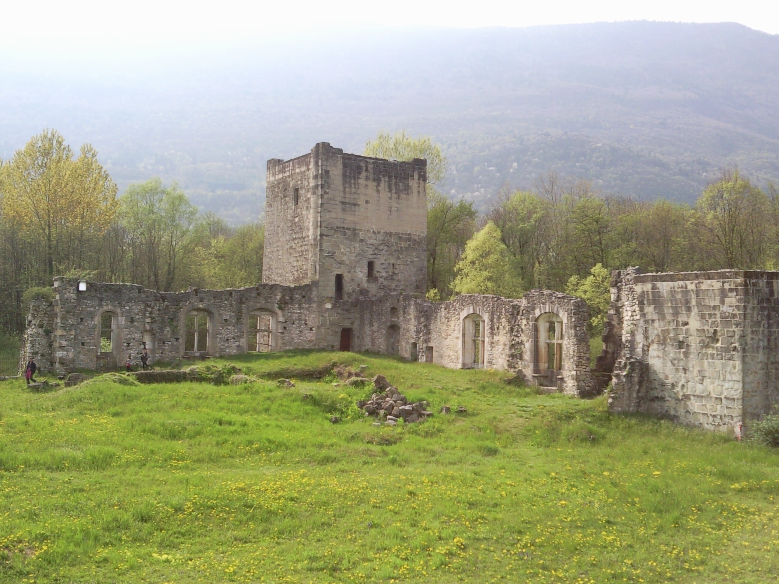 Castle of Thomas 2